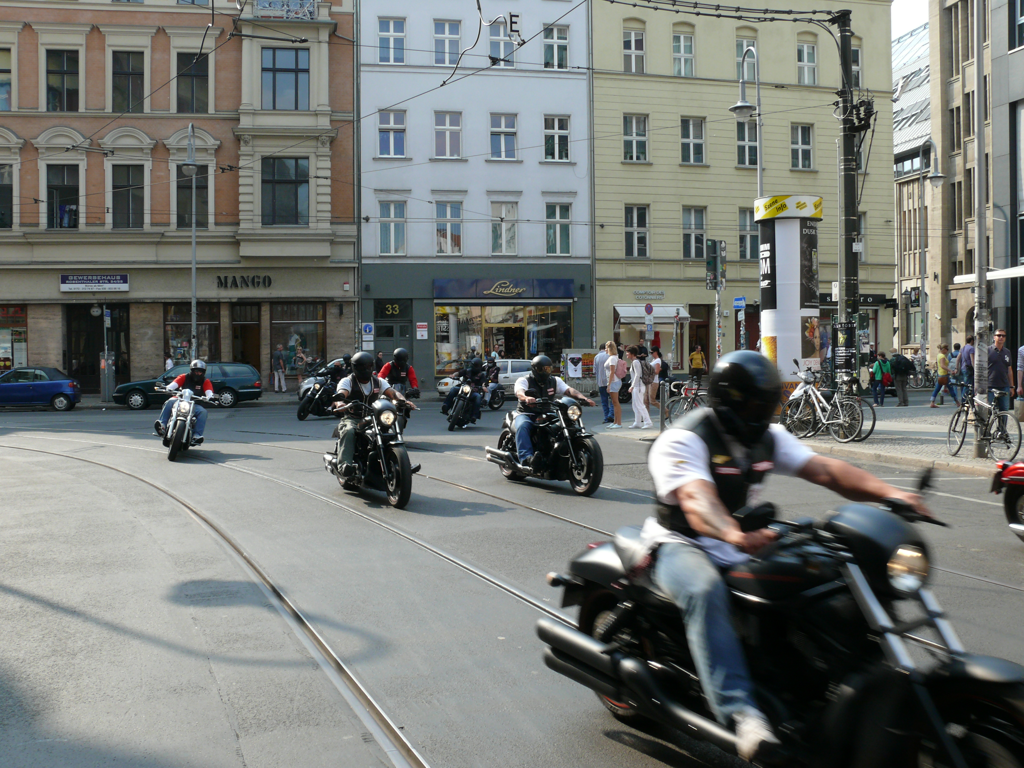 Hells Angels in Berlin Neue Schönhauser Straße